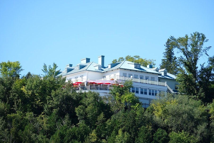 Manoir Montmorency, Montmorency Falls Park, September 2018